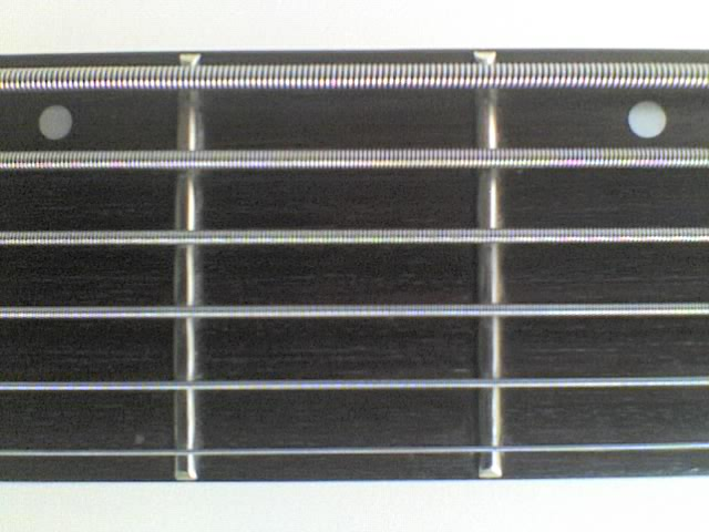 Washburn XB600, a six string bass fingerboard.